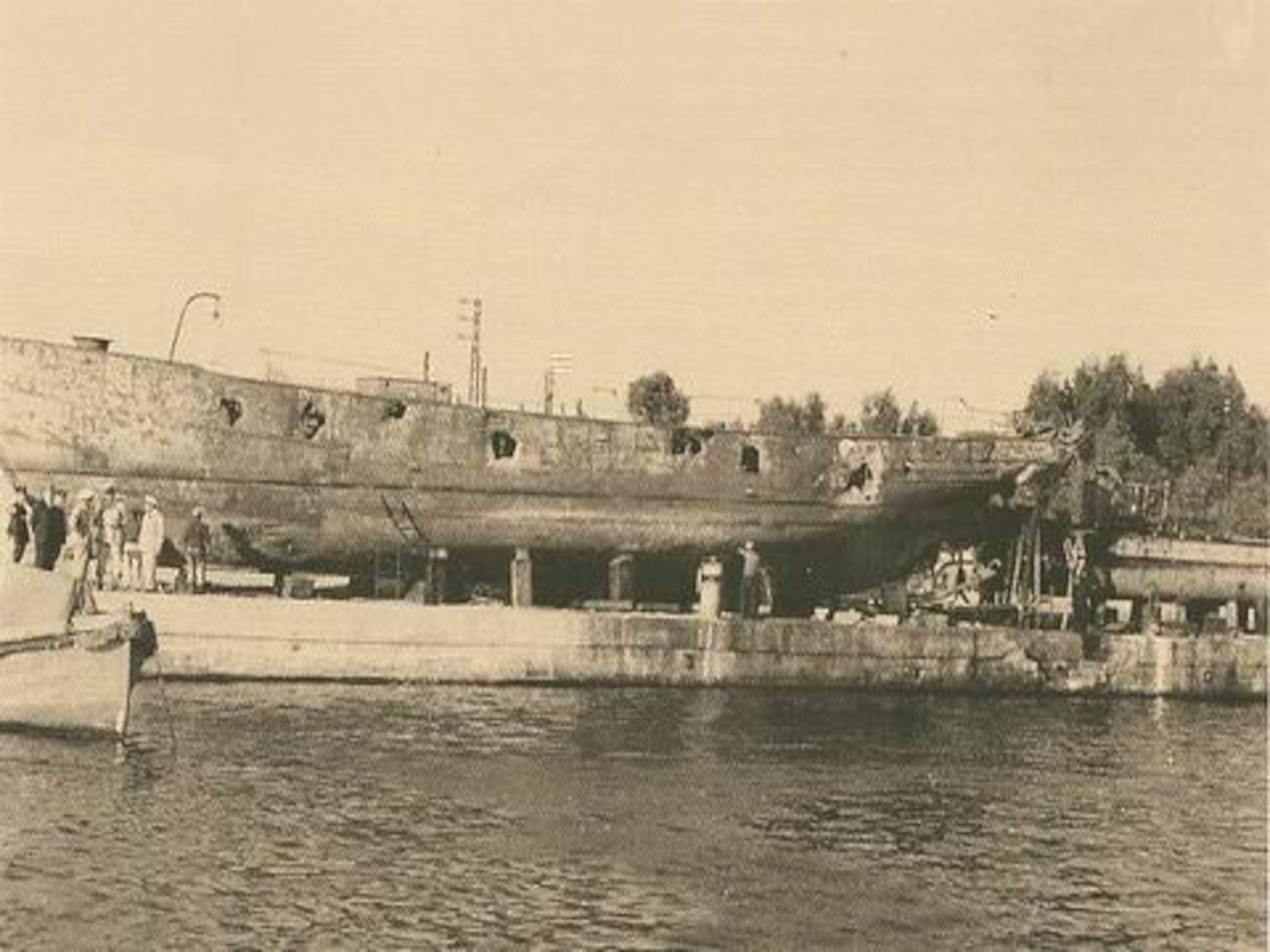 Porto Torres 1943